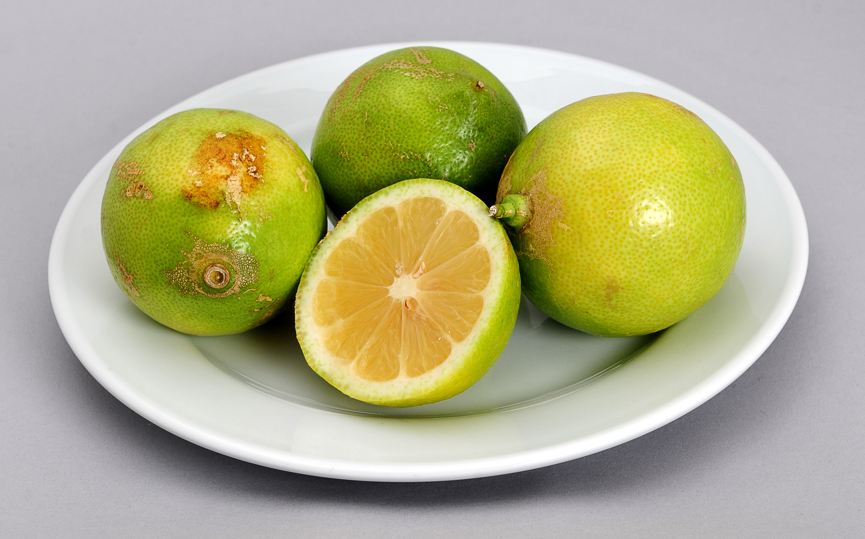 Lemons from organic farming